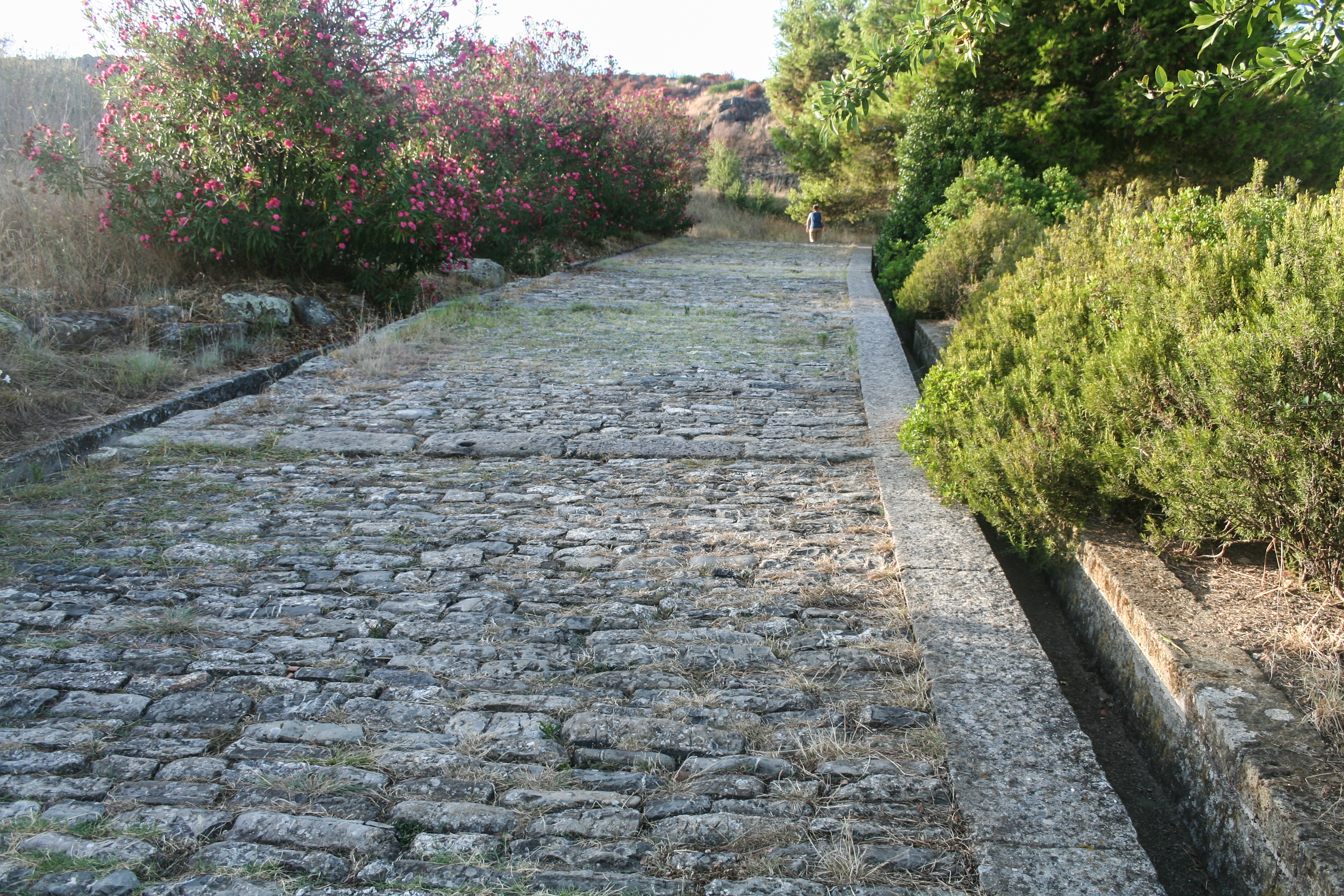 Greek street - IV-III century BC - Porta Rosa - Velia - Italy The Porta Rosa road was the main street of Elea. It connects the northern quarter with the southern quarter, through the viaduct called Porta Rosa. The street is 5 meters wide and has an incline of 18 % in the steepest part. It is paved with limestone blocks, girders cut in square blocks, and on one side a small gutter for the drainage of rain water. The building is dated during the time of the reorganization of the city during Helenistic age (IV-III century BC)